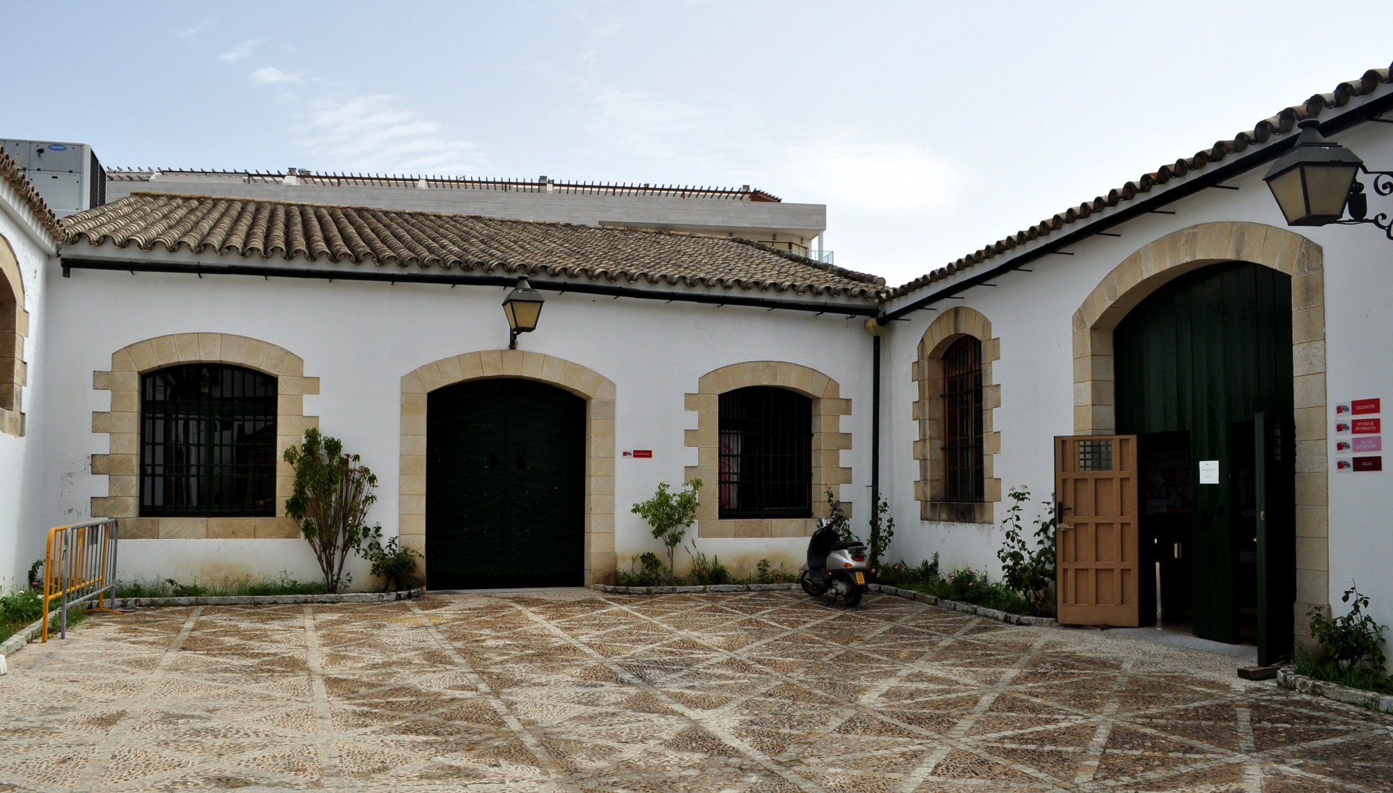 House of Youth, patio, Jerez